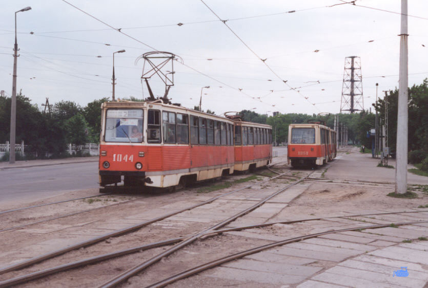 Dnieprodzerzhinsk tram which crashed in June 2 1996